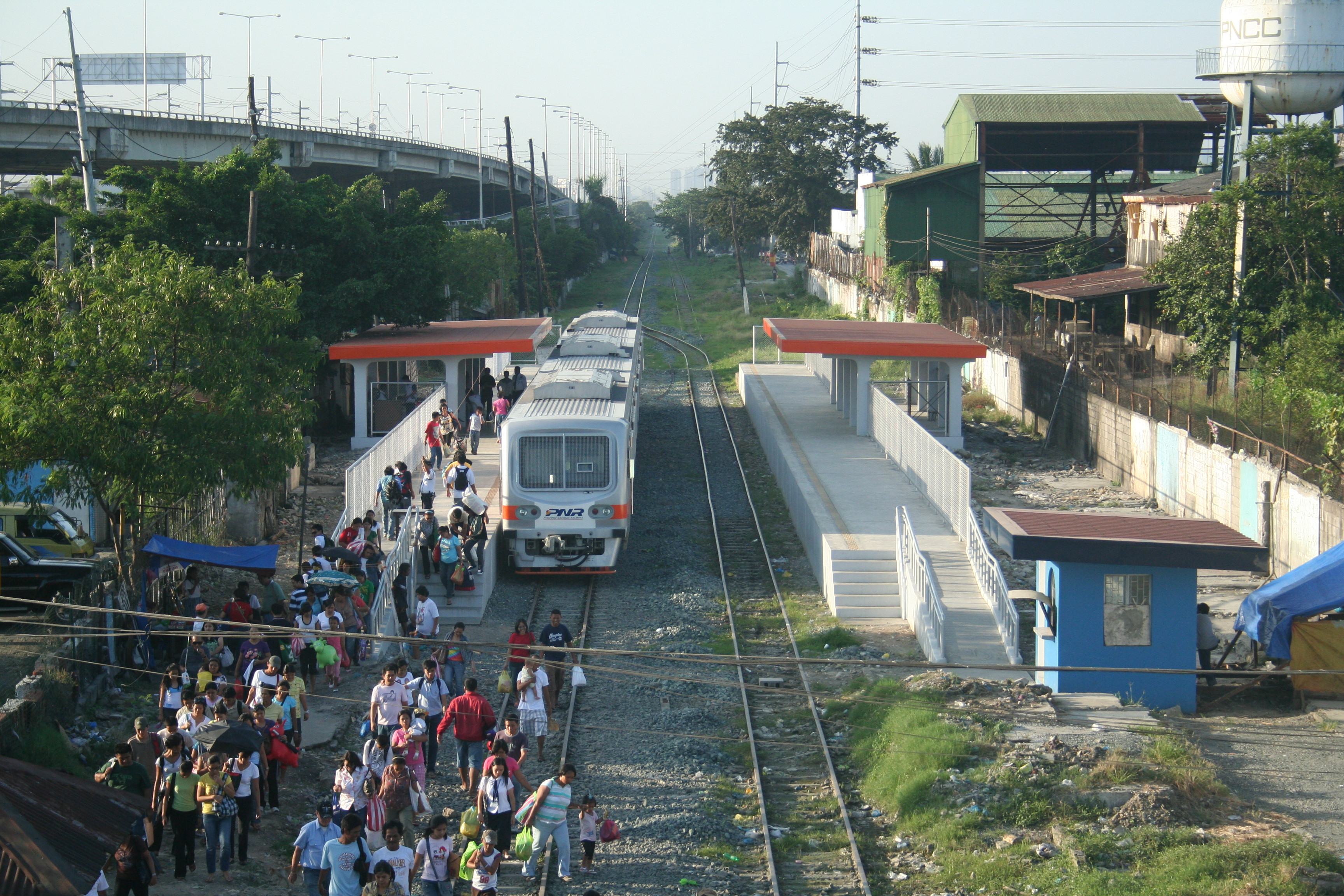 Overhead view of Bicutan railway station with passengers embarking and disembarking a new PNR diesel multiple unit.